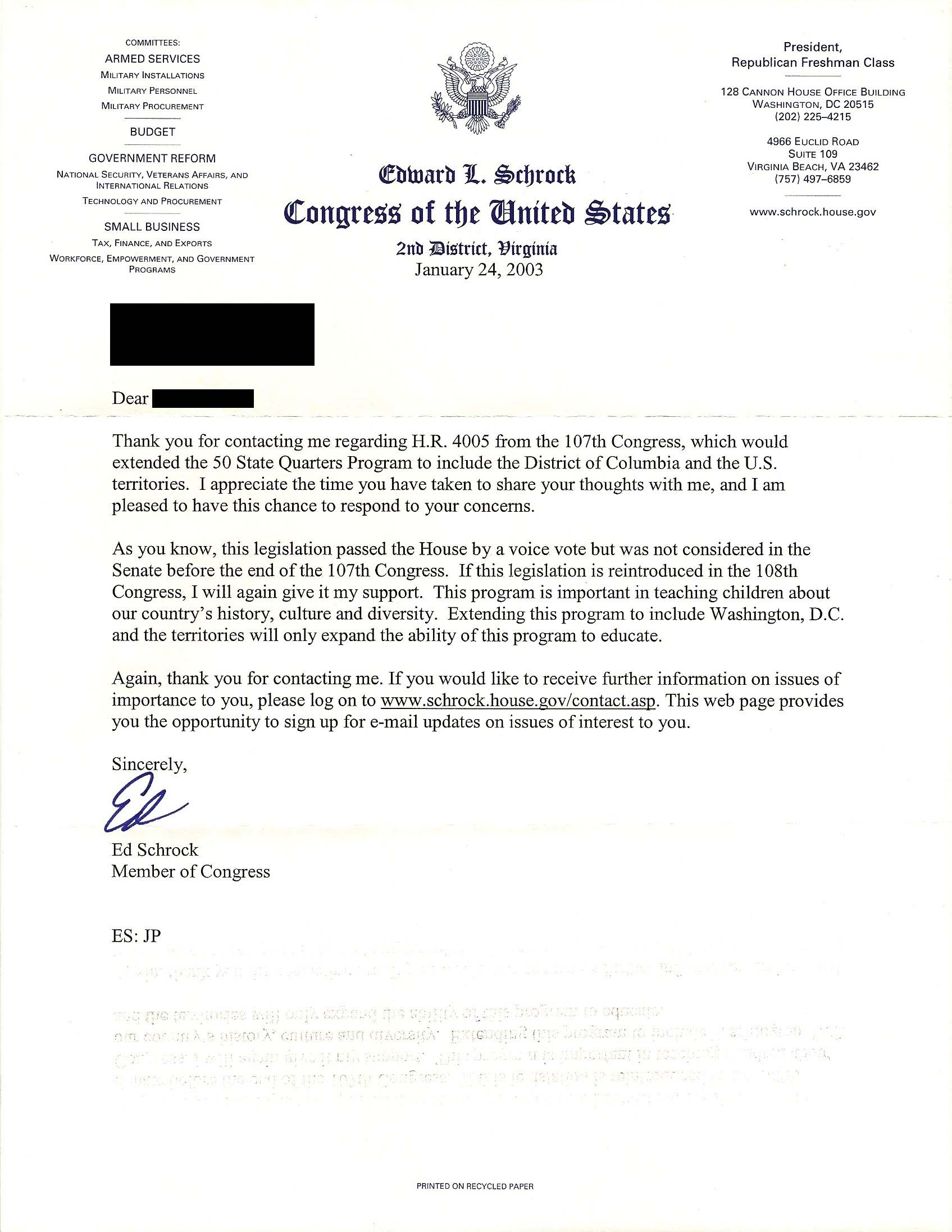 A letter (to english Wikipedia user Hoshie (talk)) from former Representive Ed Schrock answering a query about the then-proposed District of Columbia and United States Territories Quarter Program.